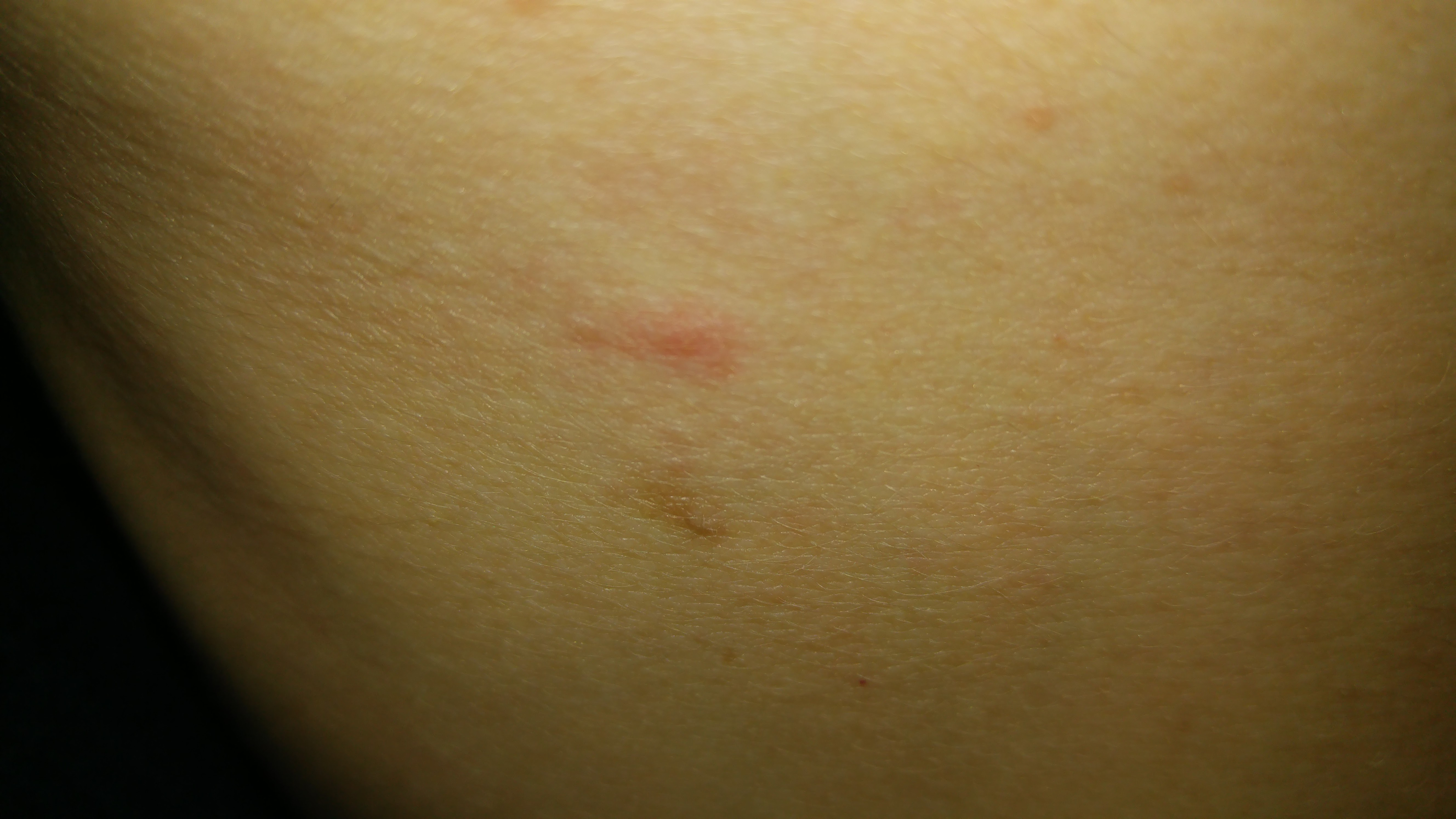 Insect bite on chest caused by hematophagic mite.